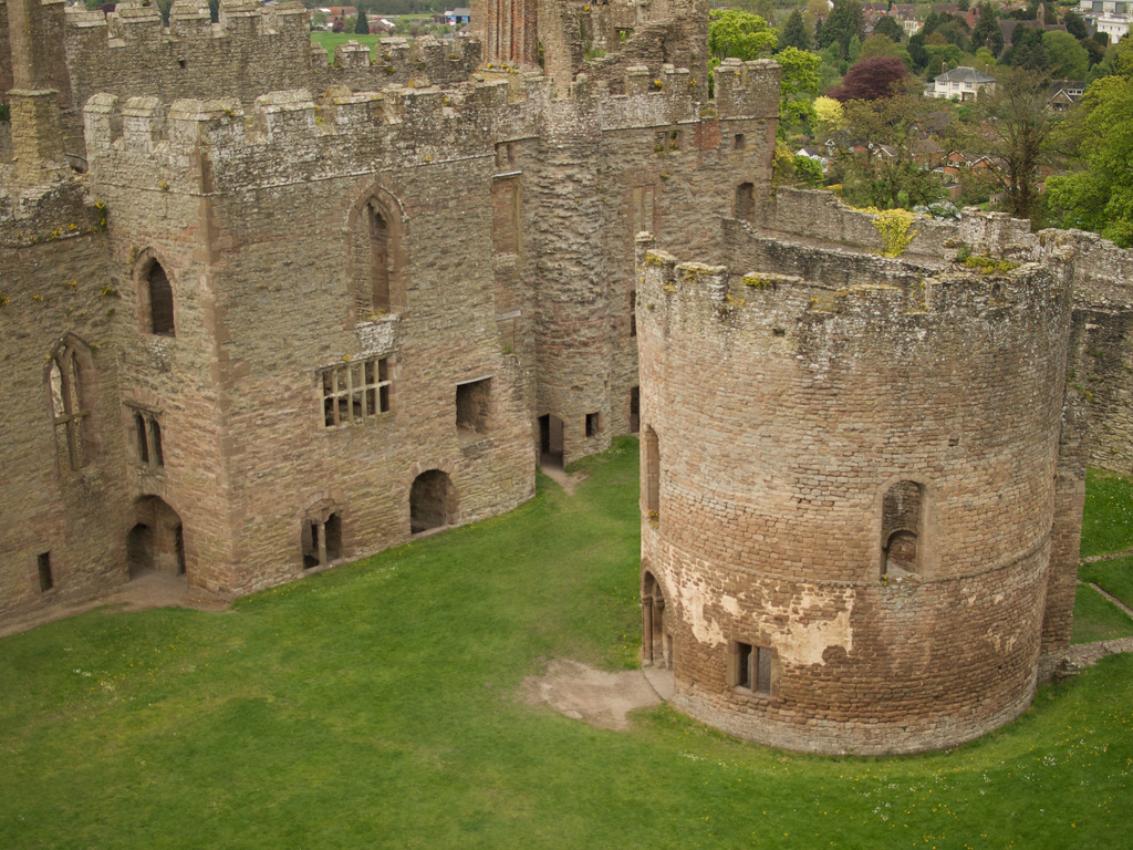 The interior of Ludlow Castle. The round tower is the chapel, and to the left is the Great Chamber.